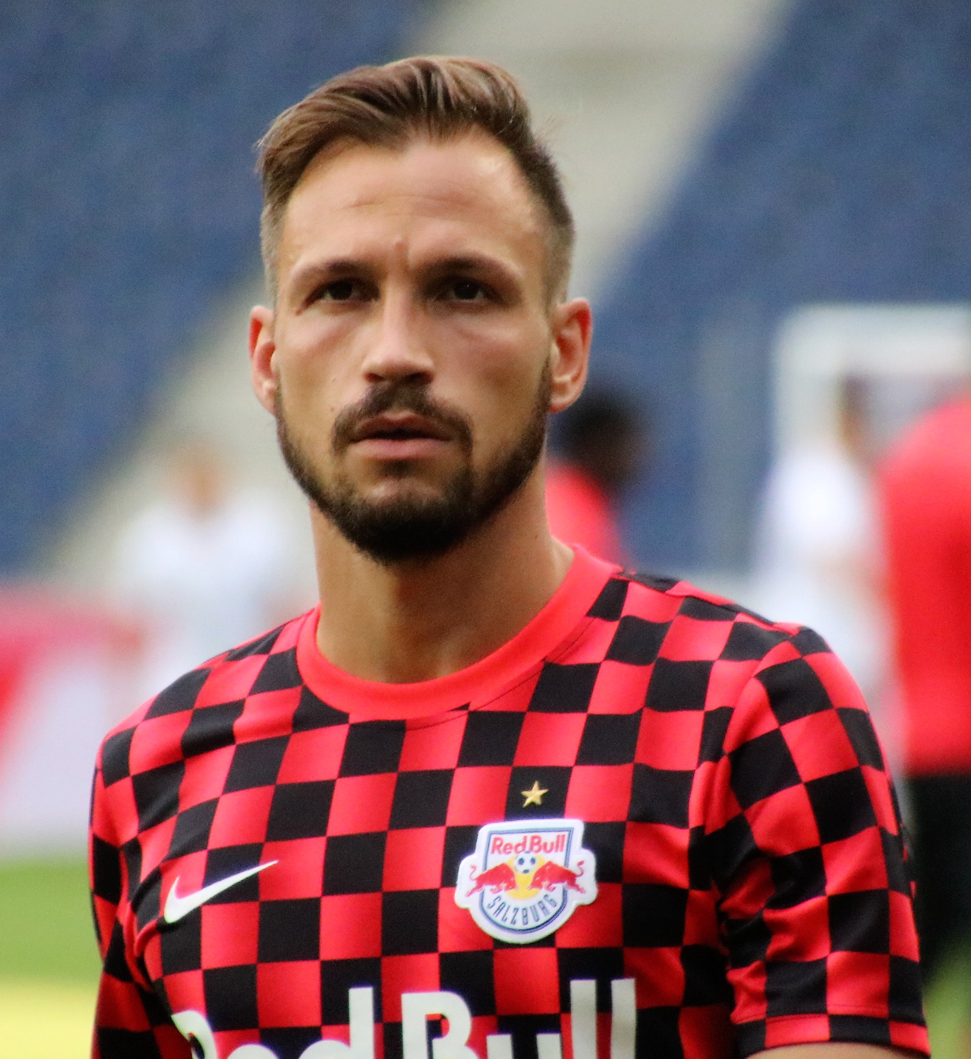 League match 3rd round Austrian Bundesliga